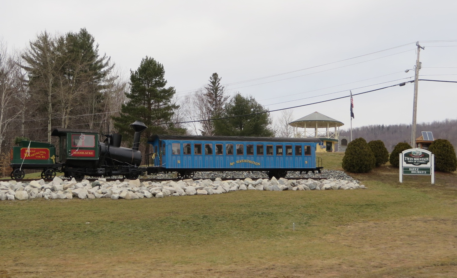 Center of village of Twin Mountain, with engine and passenger car from Mount Washington Cog Railway.